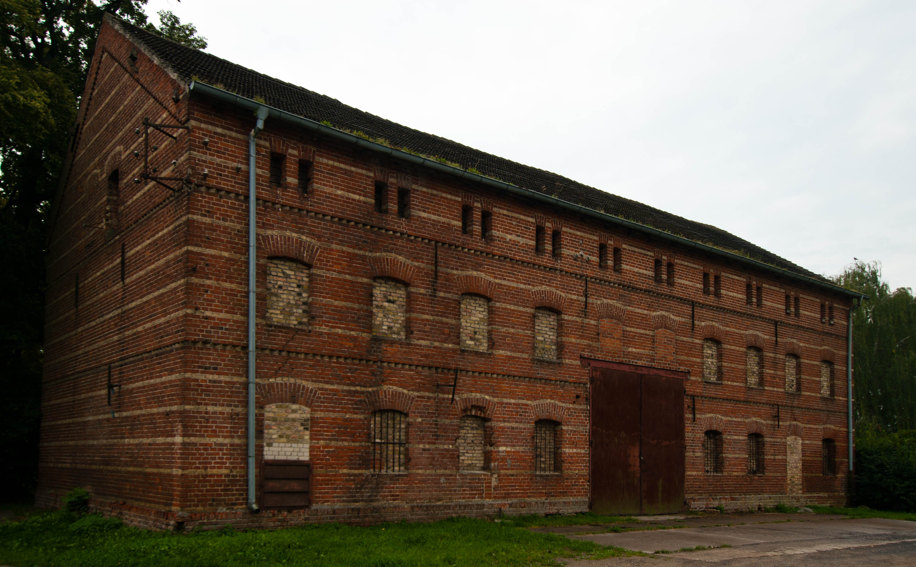 Former Storehouse, Klein-Ziethen, Brandenburg